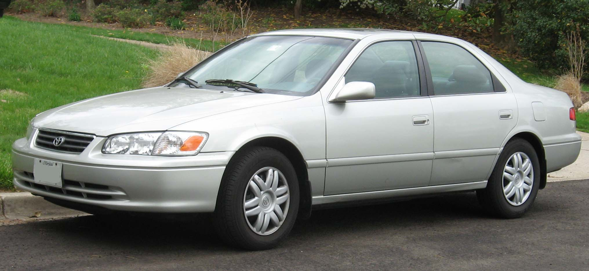 2000-2001 Toyota Camry photographed in USA.